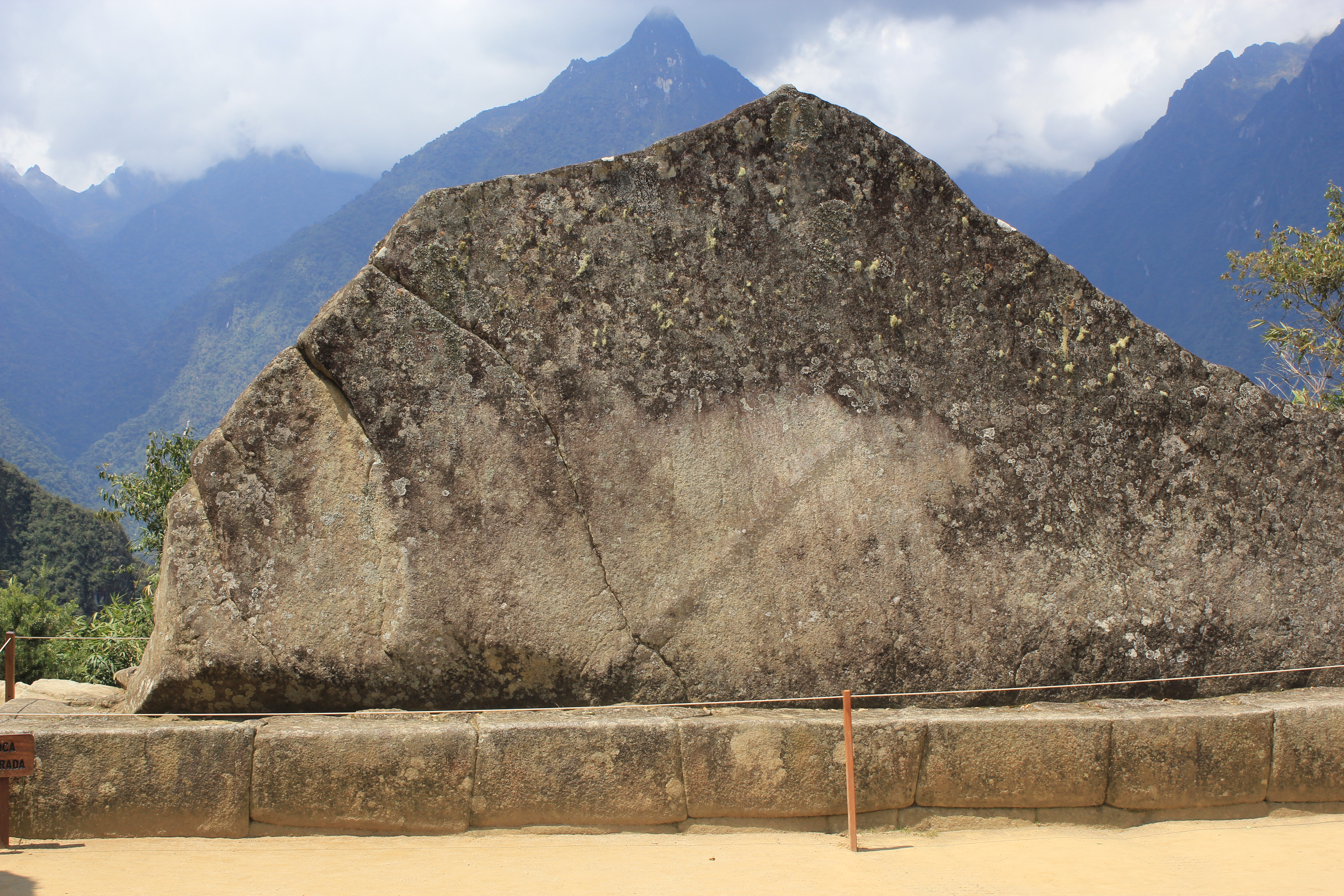 Machu Picchu (Spanish pronunciation: [ˈmatʃu ˈpitʃu]) (Quechua: Machu Picchu;[ˈmɑtʃu ˈpixtʃu]) is a 15th-century Inca citadel situated on a mountain ridge 2,430 meters (7,970 ft) above sea level.It is located in the Cusco Region, Urubamba Province, Machu Picchu District in Peru, above the Sacred Valley, which is 80 kilometers (50 mi) northwest of Cuzco and through which the Urubamba River flows).